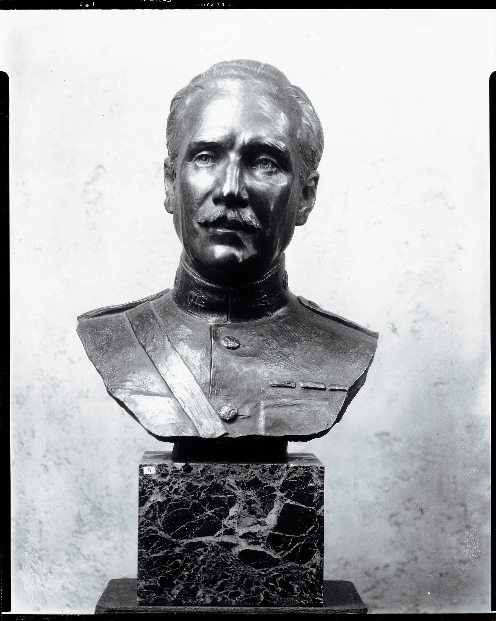 "Margaret French Cresson, N.A.," The Chesterwood Pedestal, Stockbridge, MA: Chesterwood, vol. 7, no. 1, pg. 20. Black-and-white study print (8x10). Orig. negative: 8x10, Safety, BW. Creator/Photographer: Peter A. Juley & Son Medium: Black and white photographic print Dimensions: 8 in x 10 in Culture: American Persistent URL: [1] Repository: Archives of American Art Native nameArchives of American ArtParent institutionSmithsonian InstitutionLocationWashington, D.C.Coordinates38° 53′ 52.44″ N, 77° 01′ 21.72″ W Established1954Web page control : Q2860568 VIAF: 151134814 ISNI: 0000 0001 2185 0758 LCCN: n79065944 NLA: 35007823 GND: 1085306631 WorldCat institution QS:P195,Q2860568 Accession number: JUL J0044767